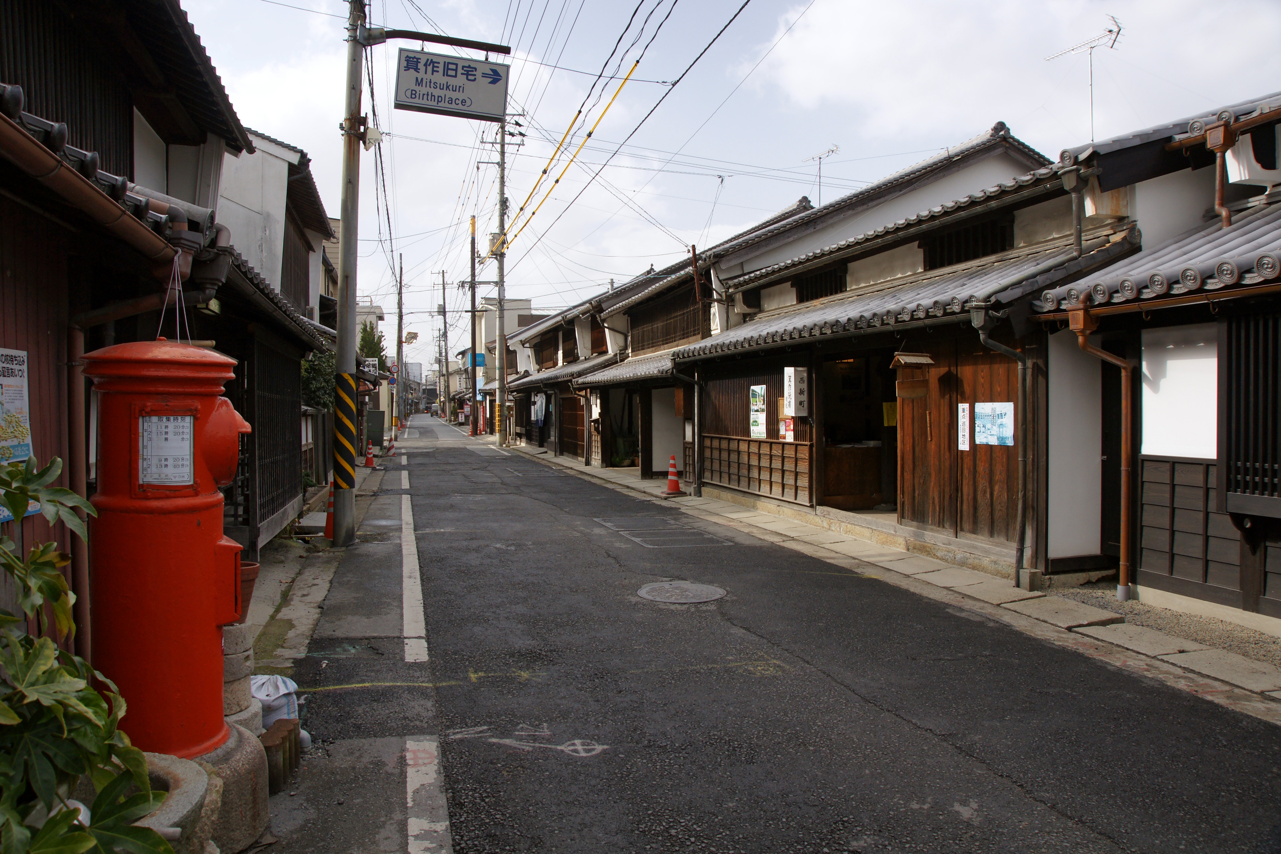 The Old Joto Area in Tsuyama, Okayama prefecture, Japan.